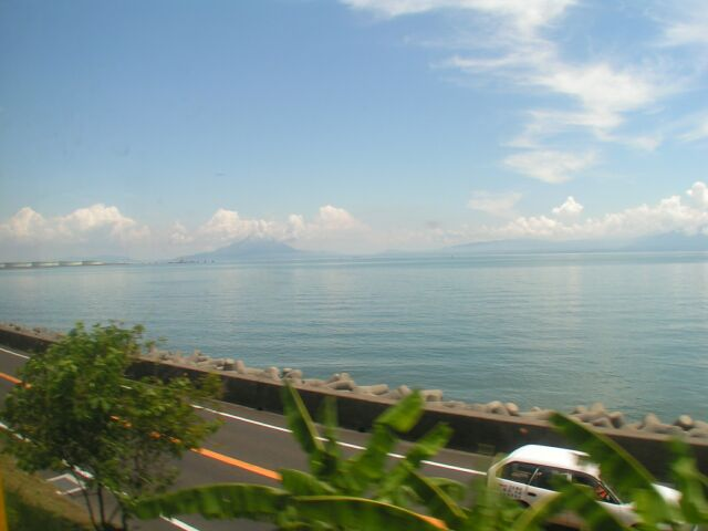 View of Kagoshima Bay from Ibusuki Makurazaki Line.